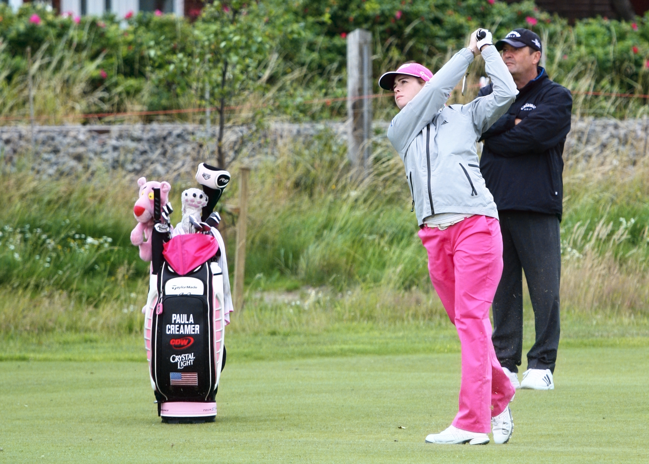 LYTHAM ST ANNES, UNITED KINGDOM - JULY 28: Paula Creamer of USA watches her approach shot to the 2nd green during second practice round before 2009 Ricoh Women's British Open held at Royal Lytham & St Annes on July 28, 2009 in Lytham St Annes, England. (Photo by Wojciech Migda)